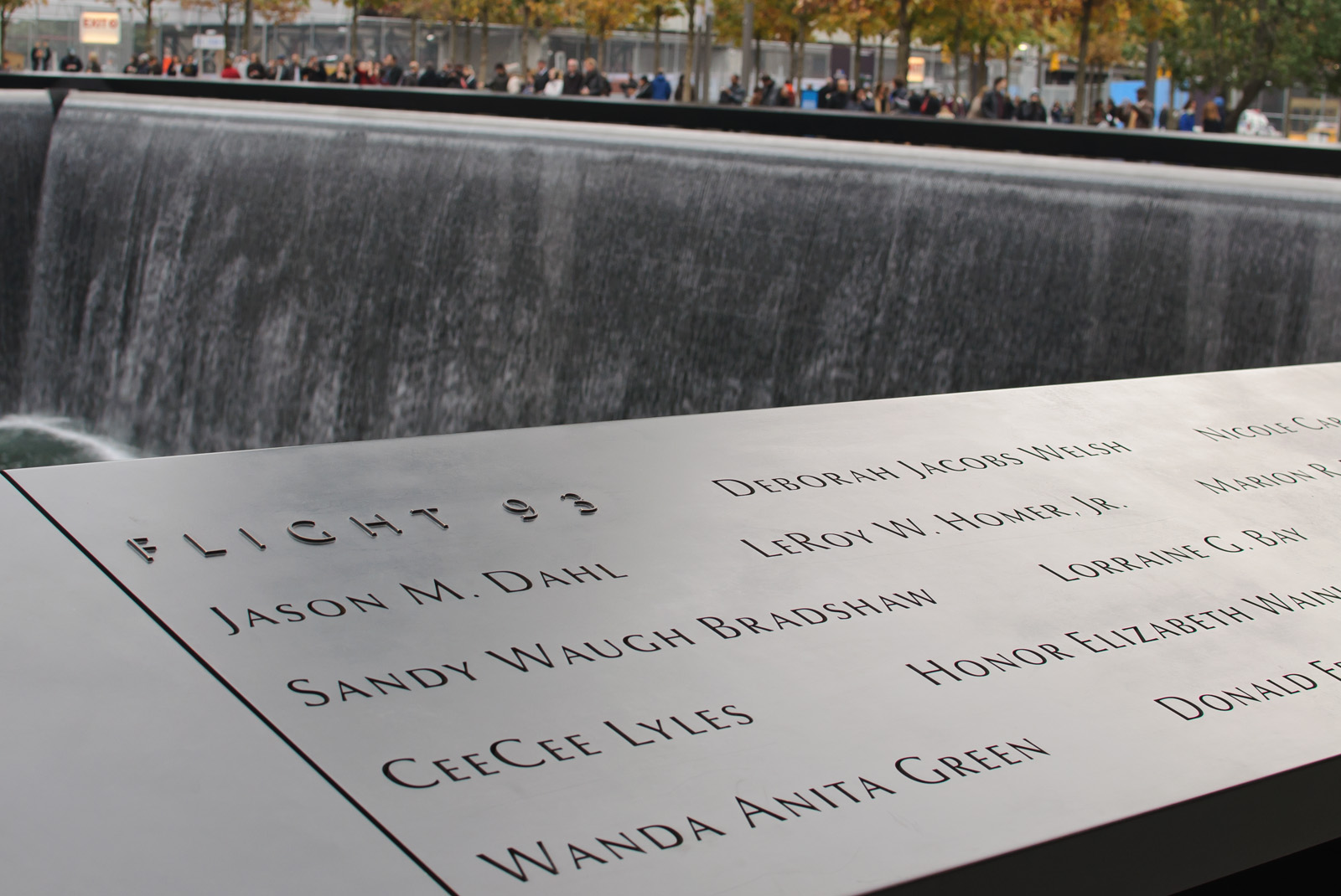 Paying my respects at the 9/11 Memorial, which was dedicated in September 2011 on the tenth anniversary of the tragic events. United 93, heading from Newark Airport to San Francisco, was the last of the four flights to be hijacked and crashed on 11 September 2001. Thanks to a ground delay, it did not get on the way until about the time of American 11's crash into the World Trade Center. After the flight was hijacked, the delay allowed passengers to learn about the happenings elsewhere in the nation, and plot a counteroffensive against the hijackers. The terrorists chose to crash the plane into the ground in Shanksville, Pennsylvania, rather than taking chances with a passenger takeover. The bravery of the passengers and crew of United 93, which prevented the flight from reaching its intended target (either the White House or the Capitol), was honored, by renaming Newark Airport, the departure point of the flight, as Newark Liberty Airport. This portion lists the crewmembers' names; Jason Dahl was the Captain, LeRoy Homer was the First Officer, Sandy Bradshaw was the lead flight attendant, and the other flight attendants were Deborah Welsh, Lorraine Bay, CeeCee Lyles, and Wanda Green. Names at the memorial are arranged so that those with a similar affiliation would be listed together; for the four flights involved, the crewmembers are listed toward the left side next to the flight number, followed by passengers toward the right side. Upon request of surviving family members and friends, certain names (such as family members or close friends traveling or working together) were placed next to each other. Kiosks throughout the memorial, as well as , allow visitors to look up the location of all groups of names, and also locate a specific name easily.